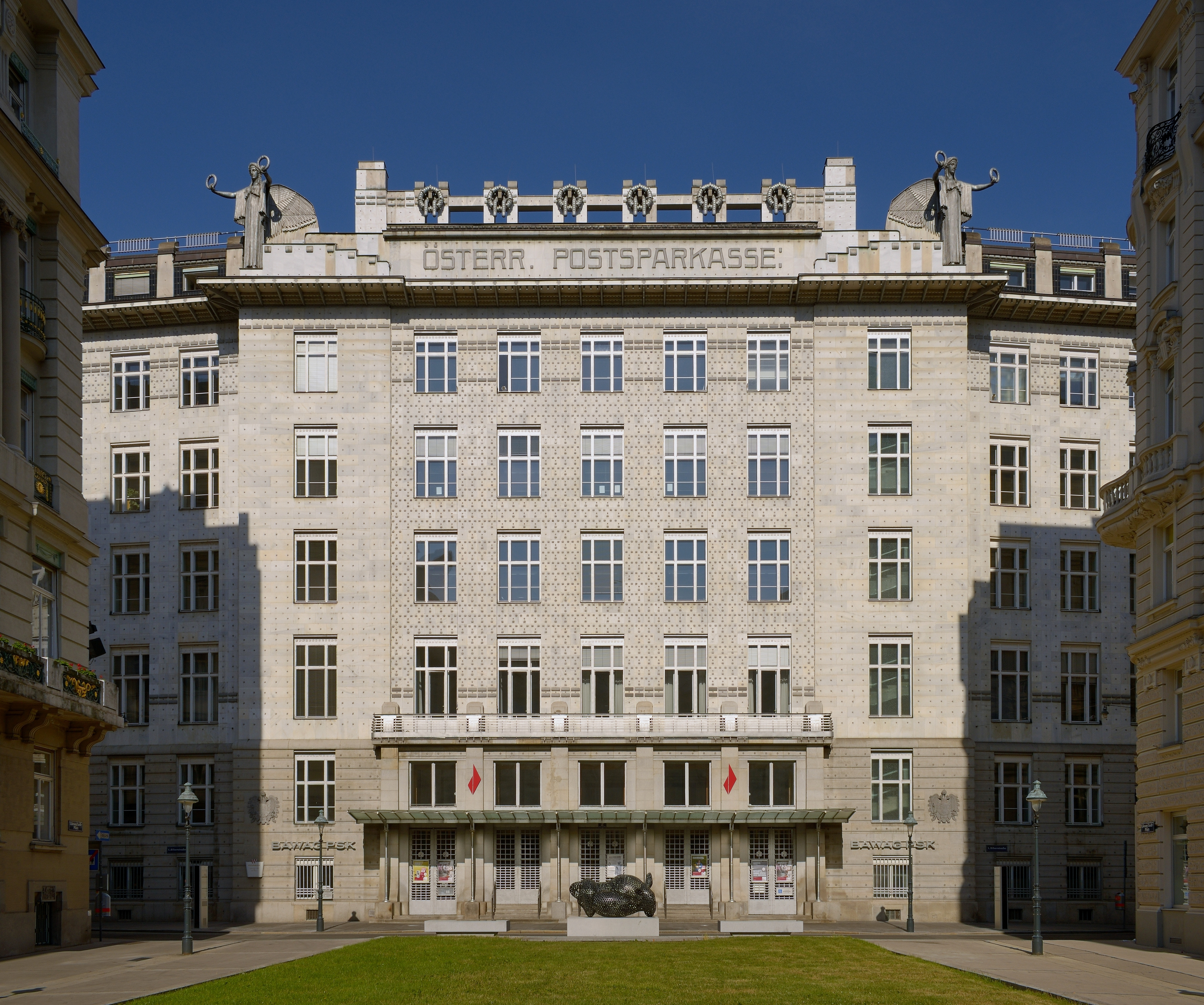 Postsparkasse; Headquarters of BAWAG P.S.K., Georg-Coch Platz, 1st district of Vienna